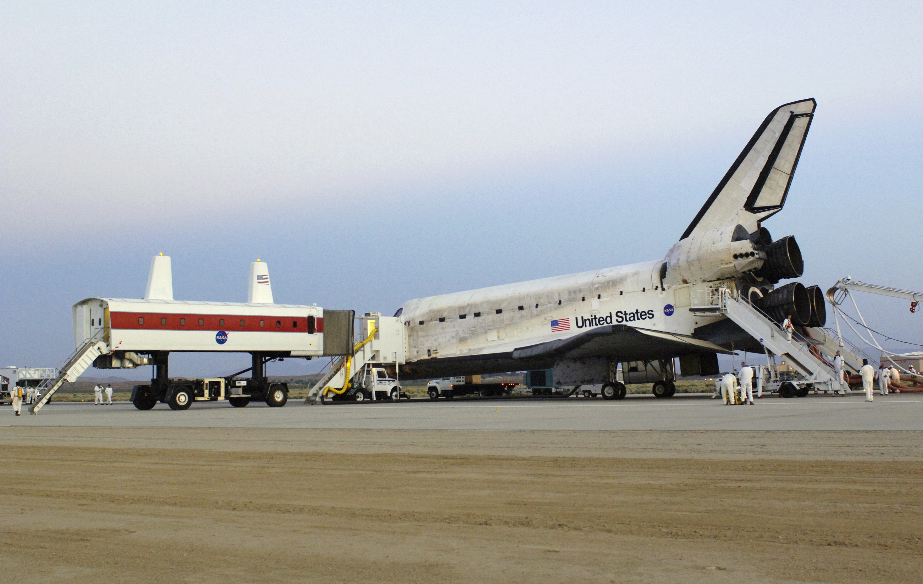 NASA's Crew Transport Vehicle, or CTV, pulls up to the Space Shuttle Discovery to offload the crew after a successful landing August 9, 2005 at Edwards Air Force Base, California. The landing marked the end of the STS-114 mission. Space Shuttle Discovery landed safely at NASA's Dryden Flight Research Center at Edwards Air Force Base in California at 5:11:22 a.m. PDT this morning, following the very successful 14-day STS-114 return to flight mission.